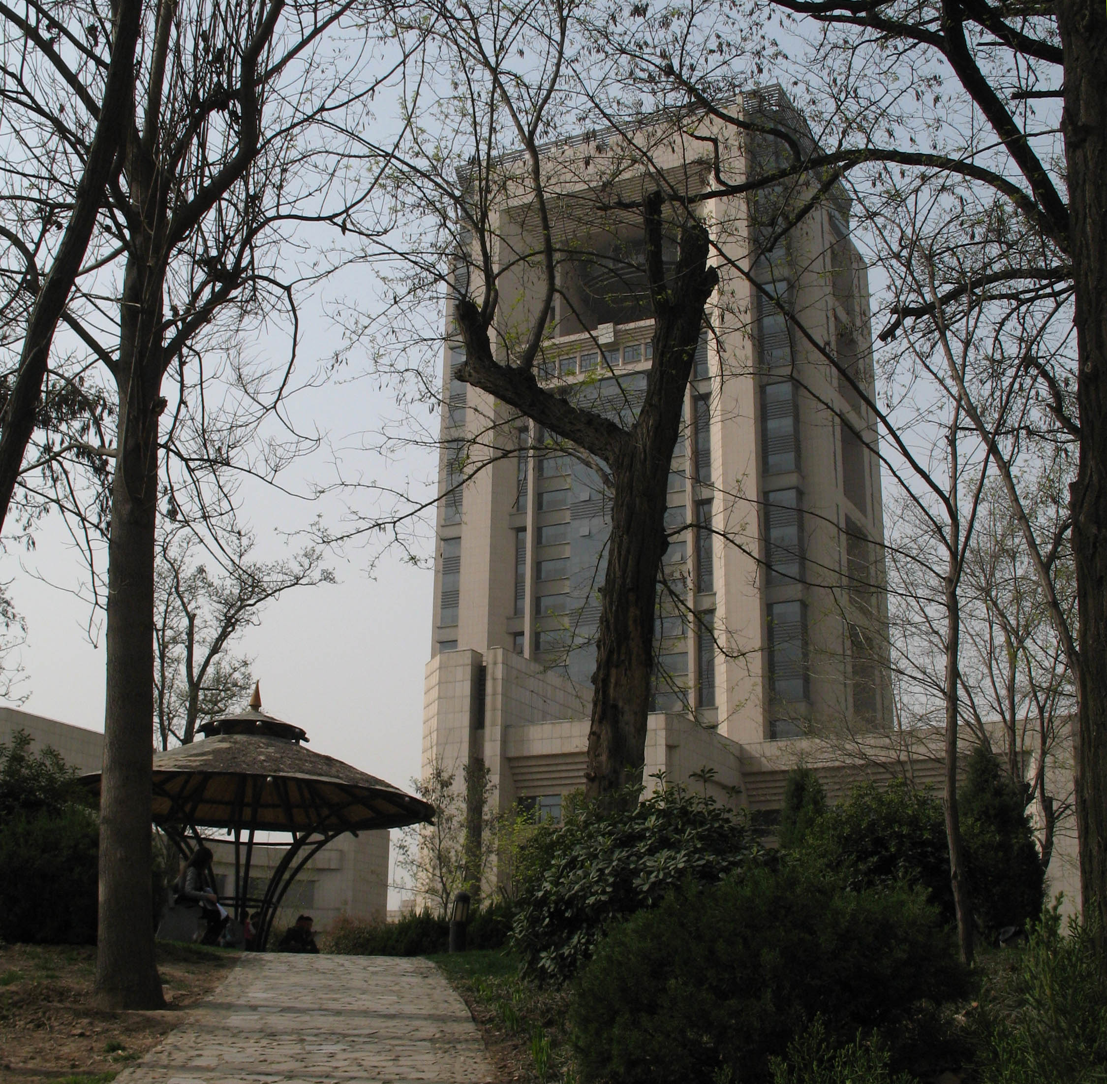 the new teaching building of XJTU